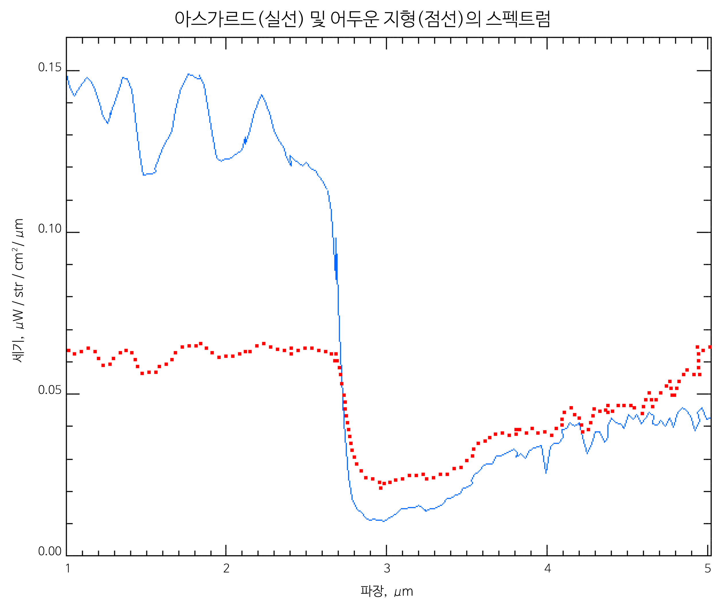 Korean version of file PIA00844 NIMS spectra.gif